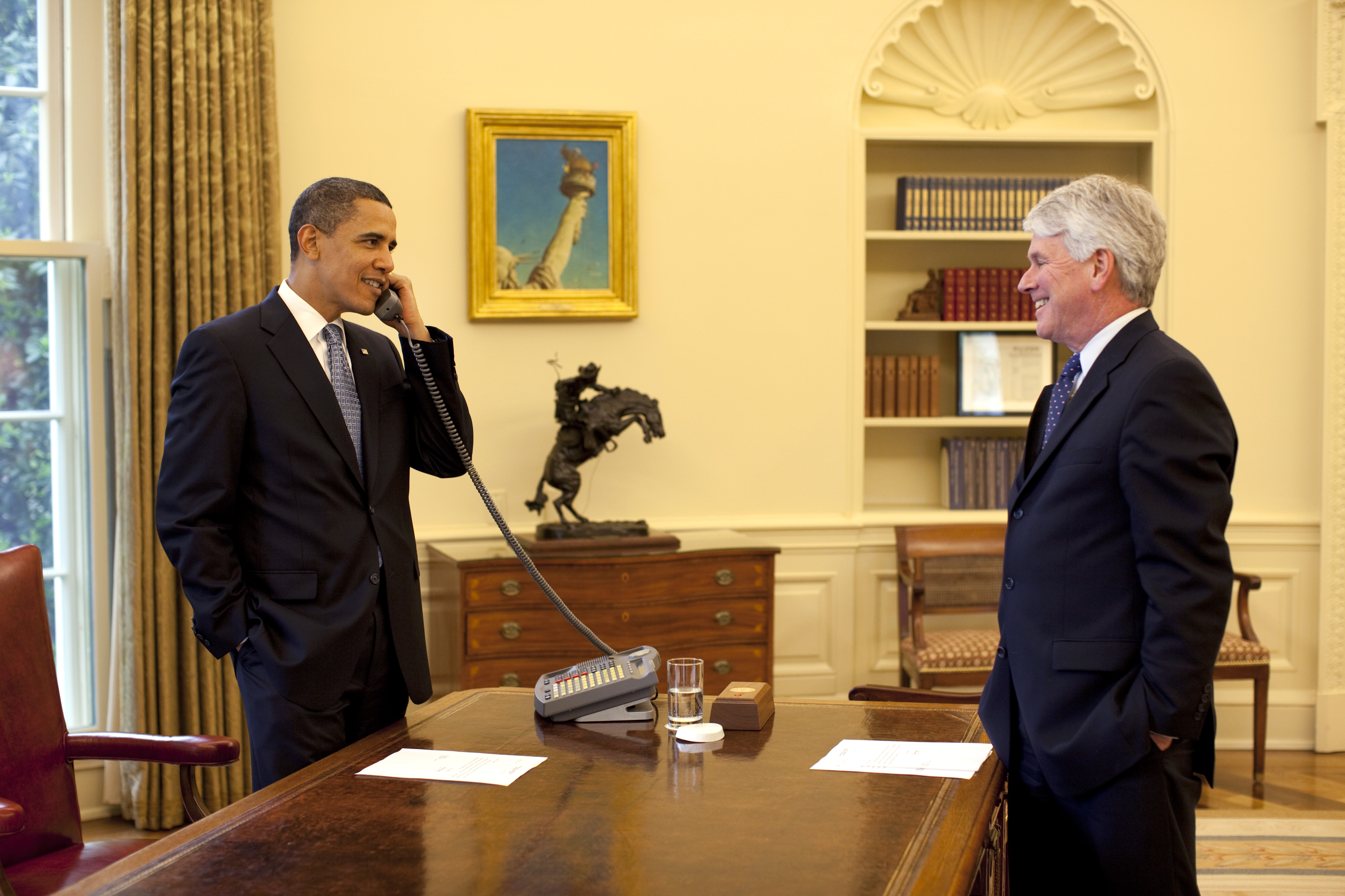 The White House Counsel Greg Craig and President Obama talk to Retiring Supreme Court Justice David Souter.